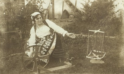 Bulgaria